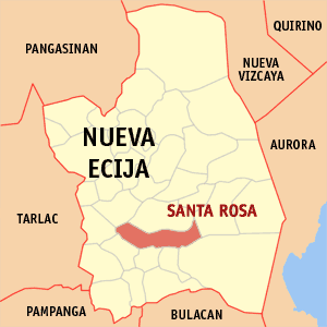 Map of Nueva Ecija showing the location of Santa Rosa